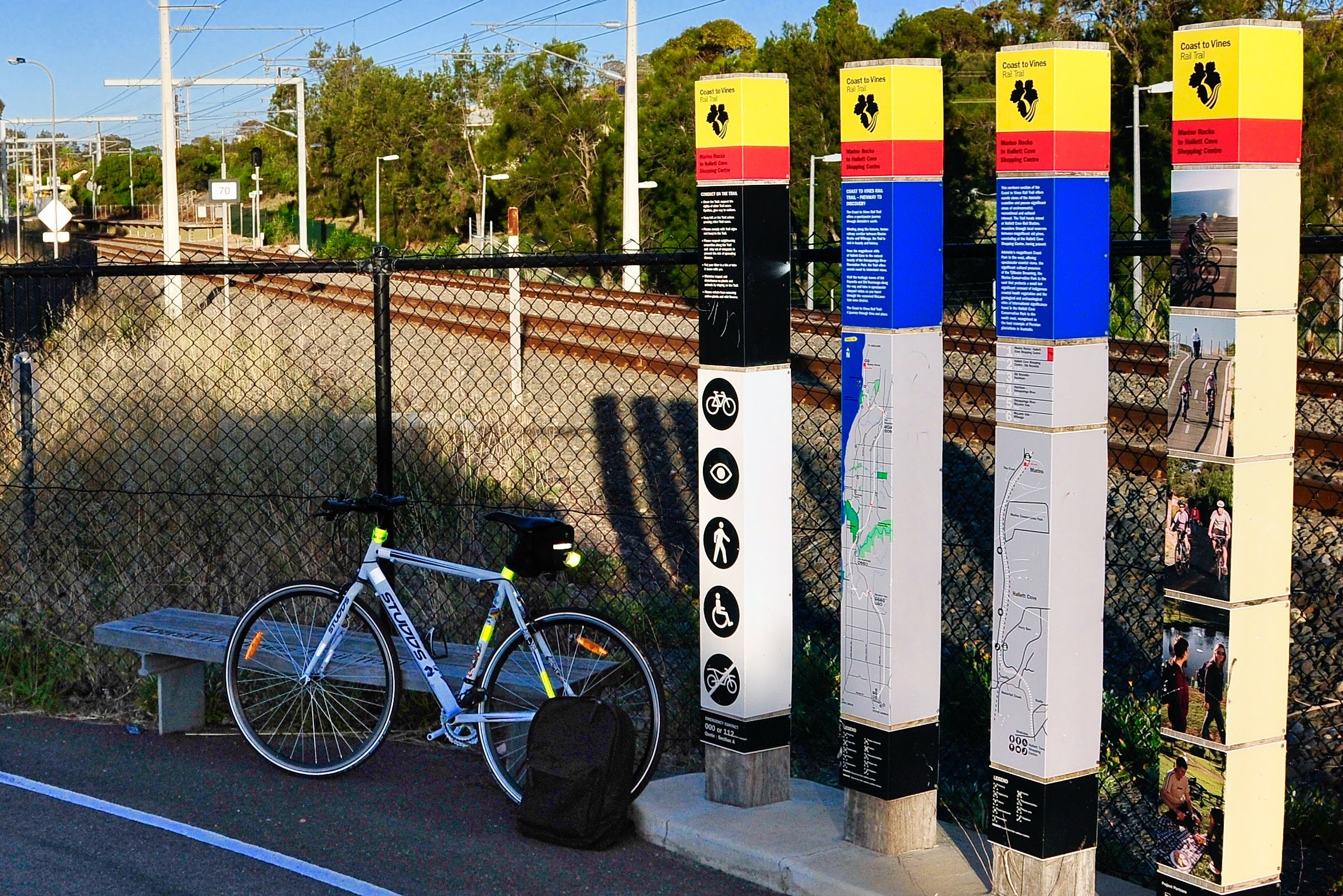 Cycle routes at Marino Rocks station